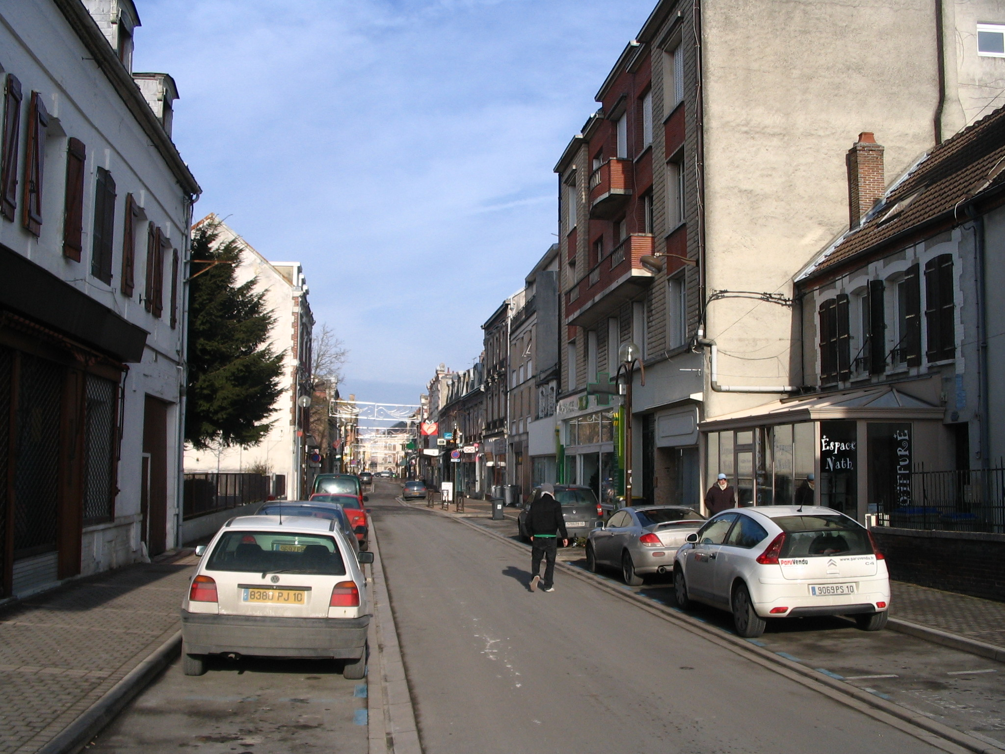 A street in Romilly-sur-Seine, Aube, France.